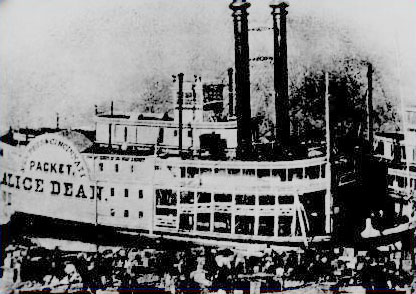 Steam Ship Alice Dean, launched 1863, burned by Gen. John Morgan in the Ohio River opposite Brandendburg, Kentucky on July 8, 1863.